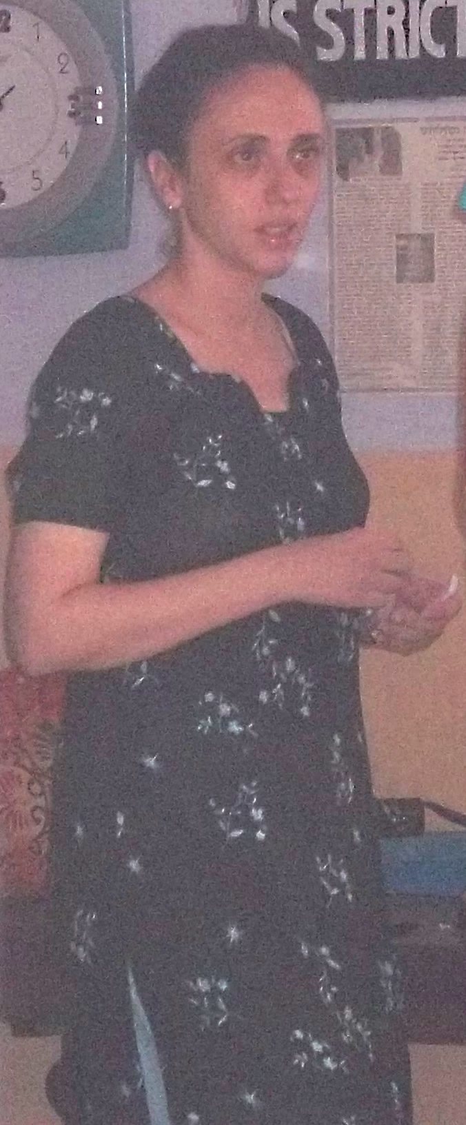 A photograph of Yaheh Hallegua, one of the last remaining Paradesi Jews of Cochin.